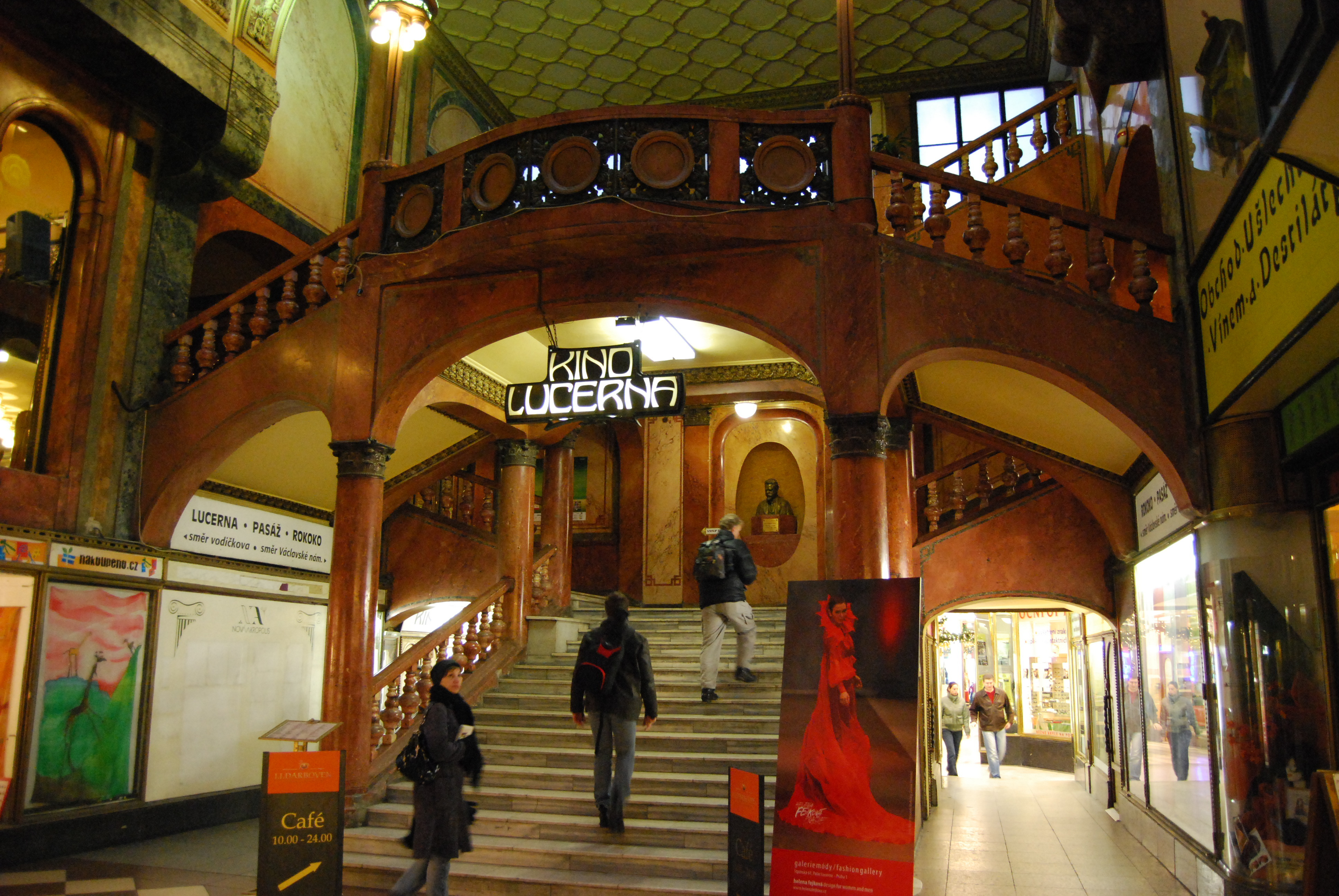 Palace Lucerna in Prague, Czech Republic.